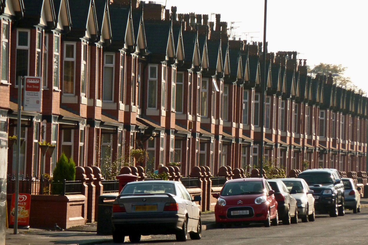 Terrace on Lloyd Street South in Moss Side, Manchester